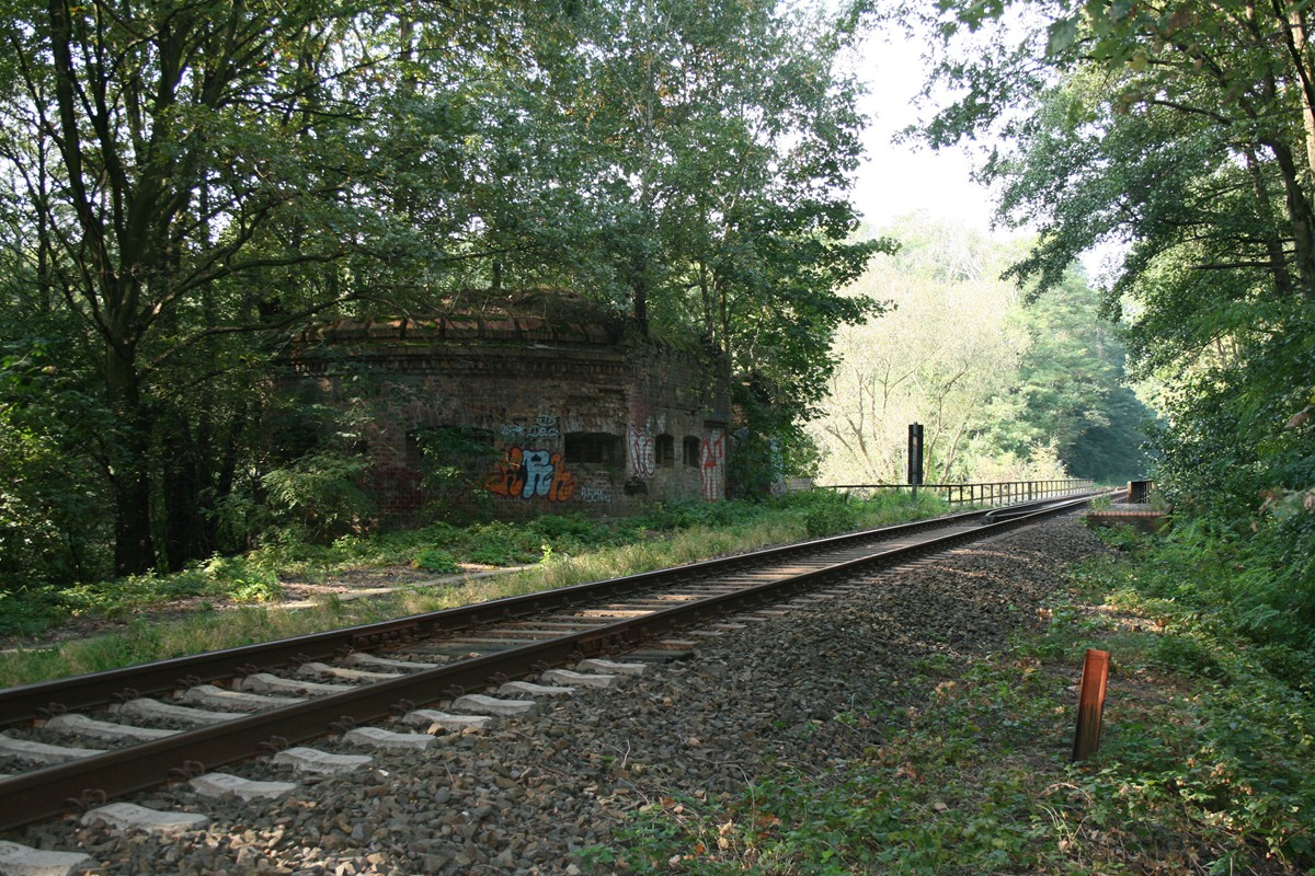 Railwaybridge over the river Spree in Kiekebusch (Cottbus), Germany.